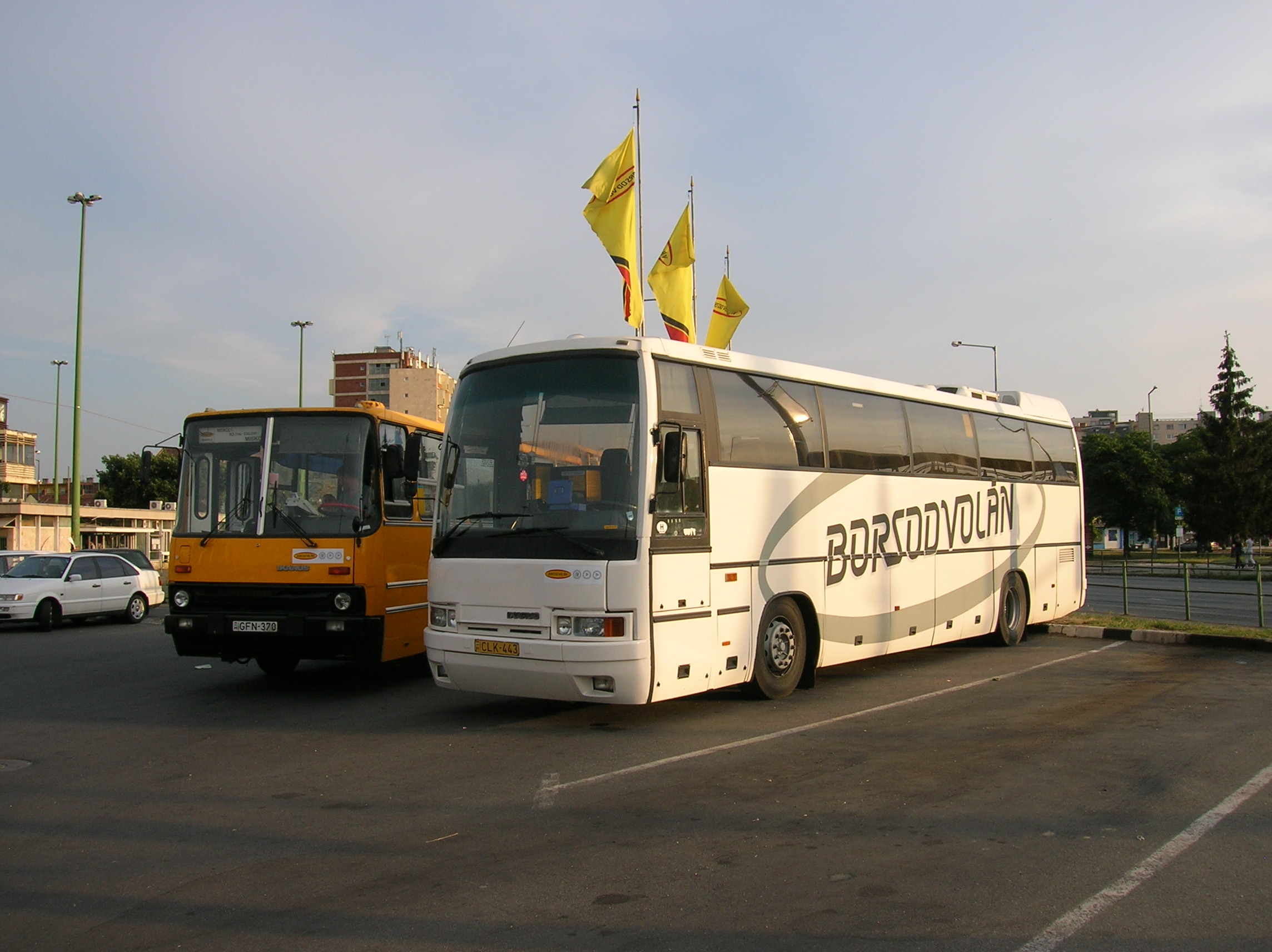 Buses of Borsod Volán public transport company, Búza Square bus station, Miskolc, Hungary. The yellow buses usually connect the small towns and villages to the city, while the better ones provide transport between cities. (Hence the nickname sárgabuszos, "one who travels by yellow bus", a synonym for redneck ;)